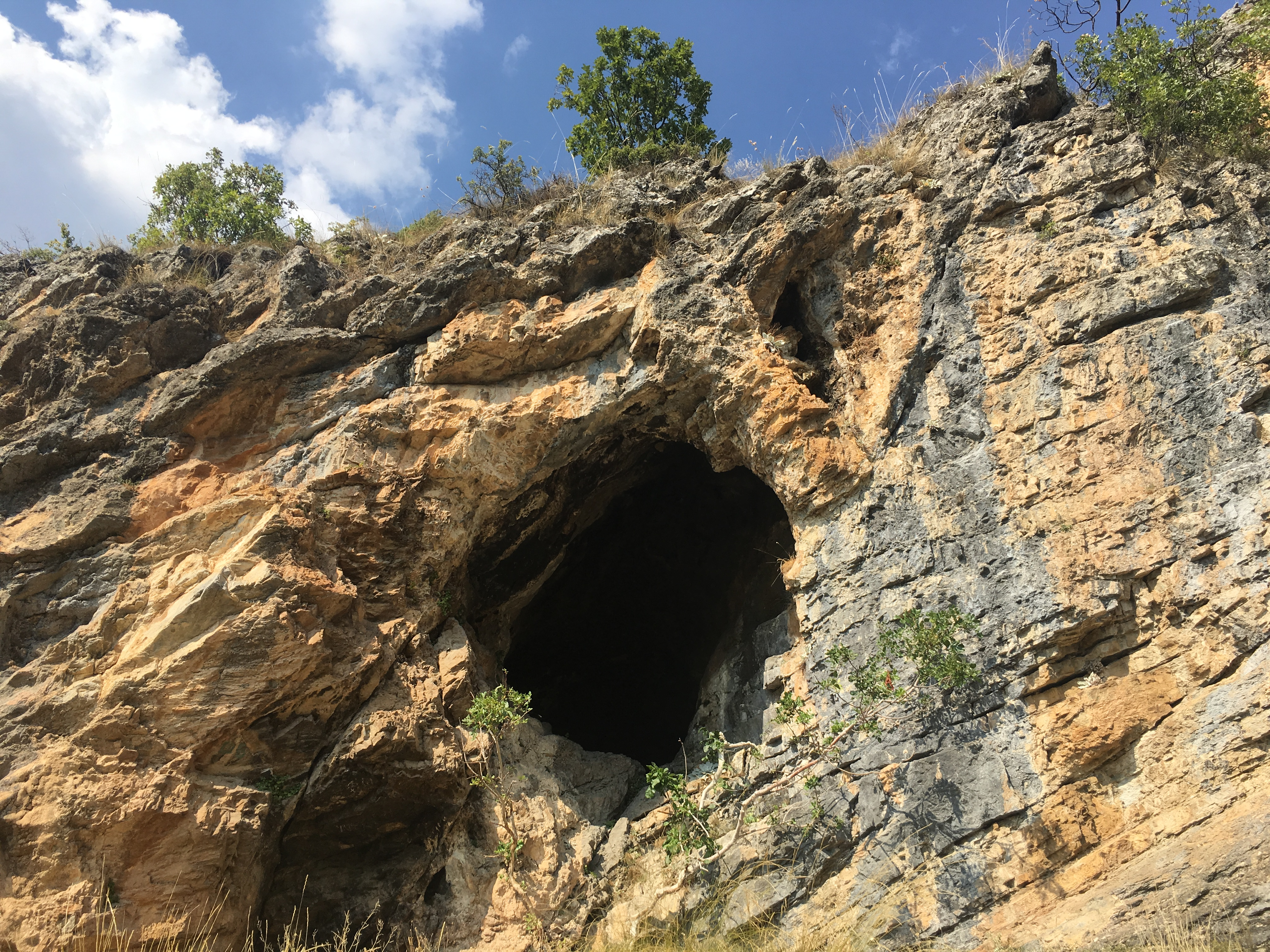 A cave near the village of Velgošti